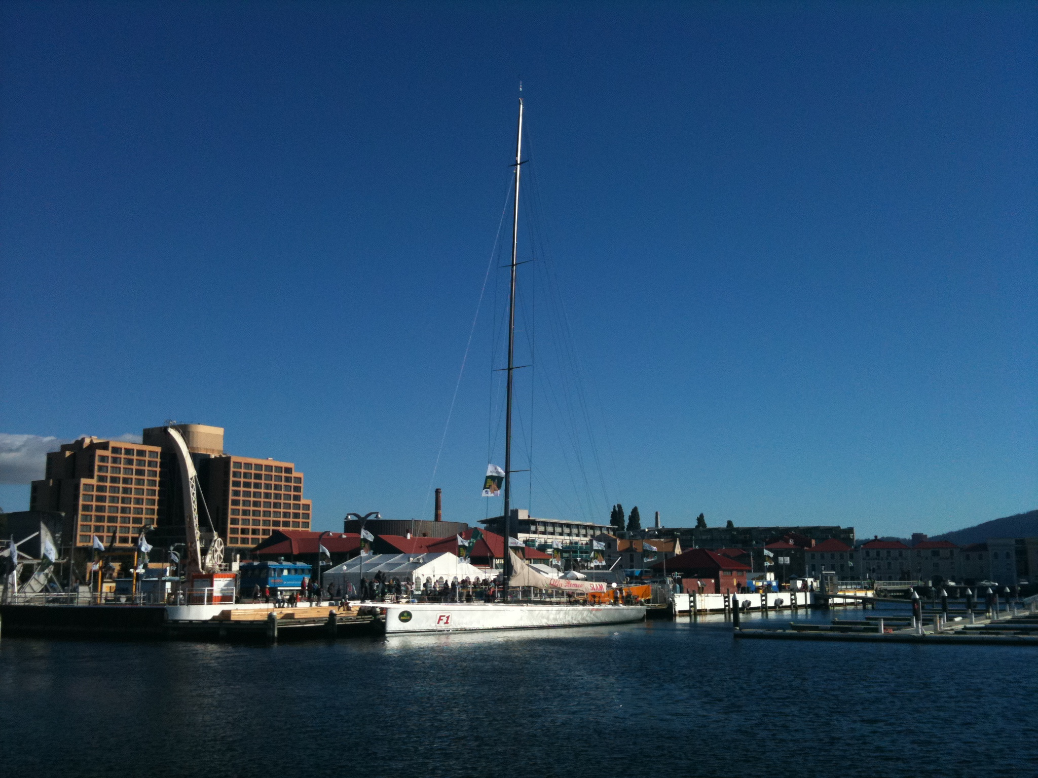 The winner of the 2009 Sydney to Hobart - Alfa Romeo II docked in Hobart on the morning after finishing the race.